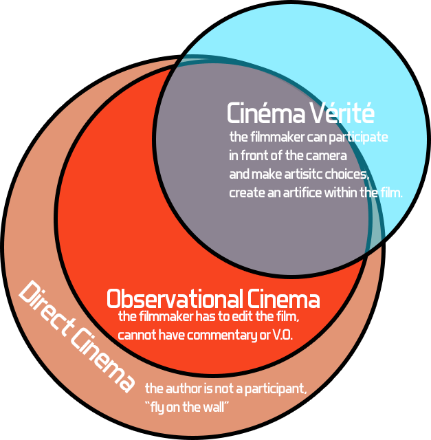 Venn Diagram of the documentary film genres Direct Cinema, Observational Cinema and Cinema Verite.